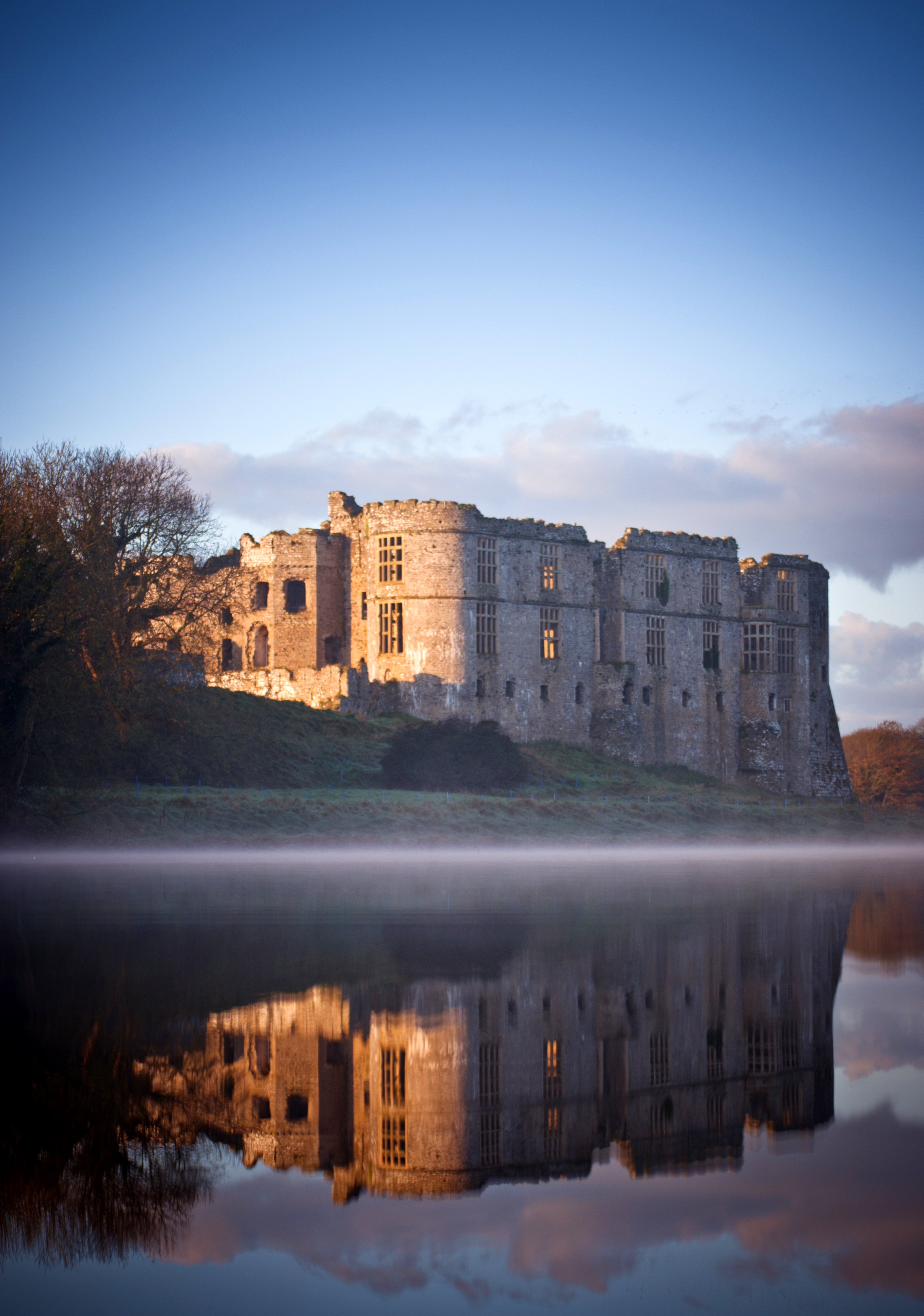 Portrait image of Carew Castle in Pembrokeshire, UK. Taken on 6 November 2011 at 09:16.